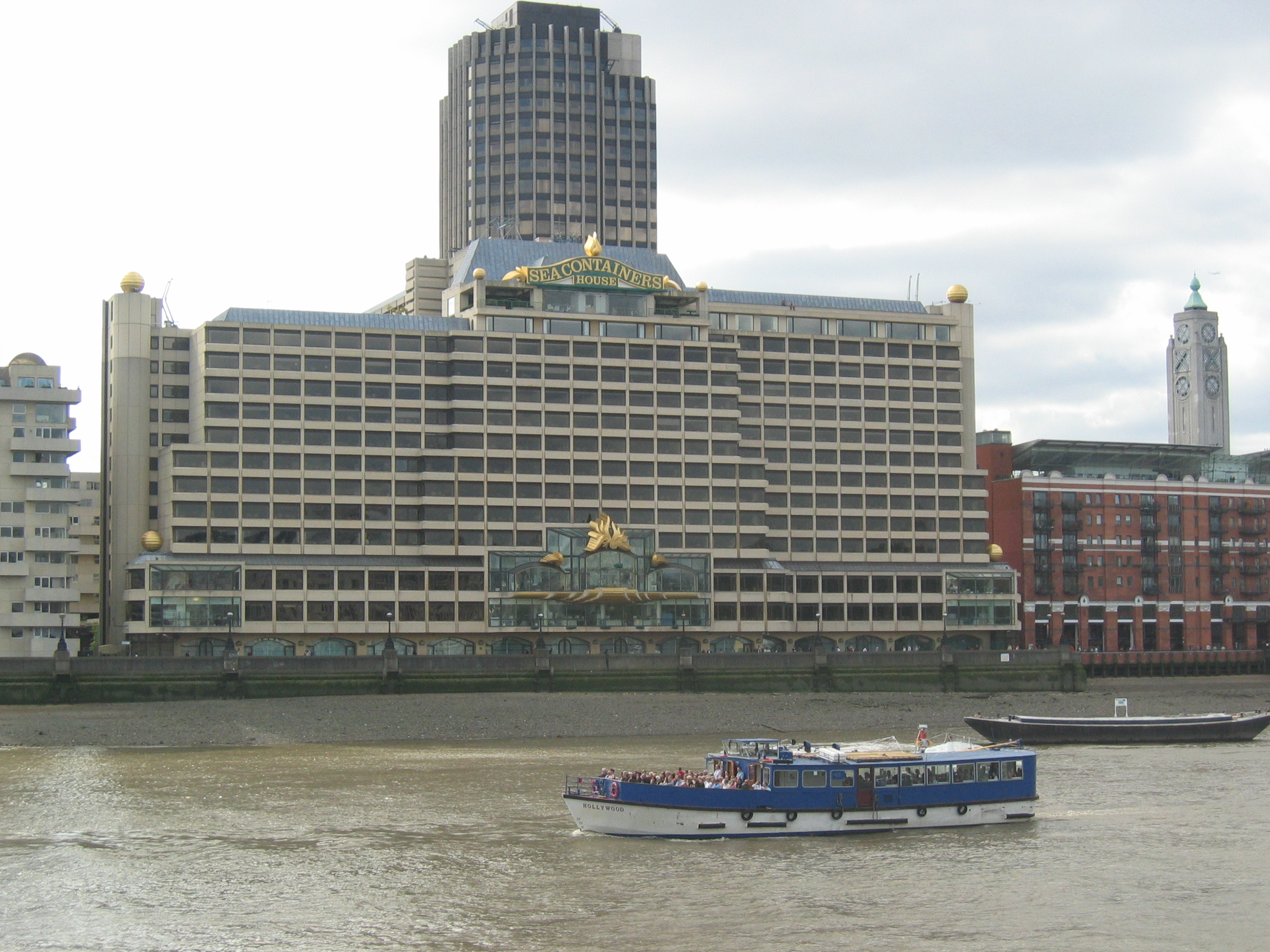 Sea Containers House on the south bank of the River Thames, London.